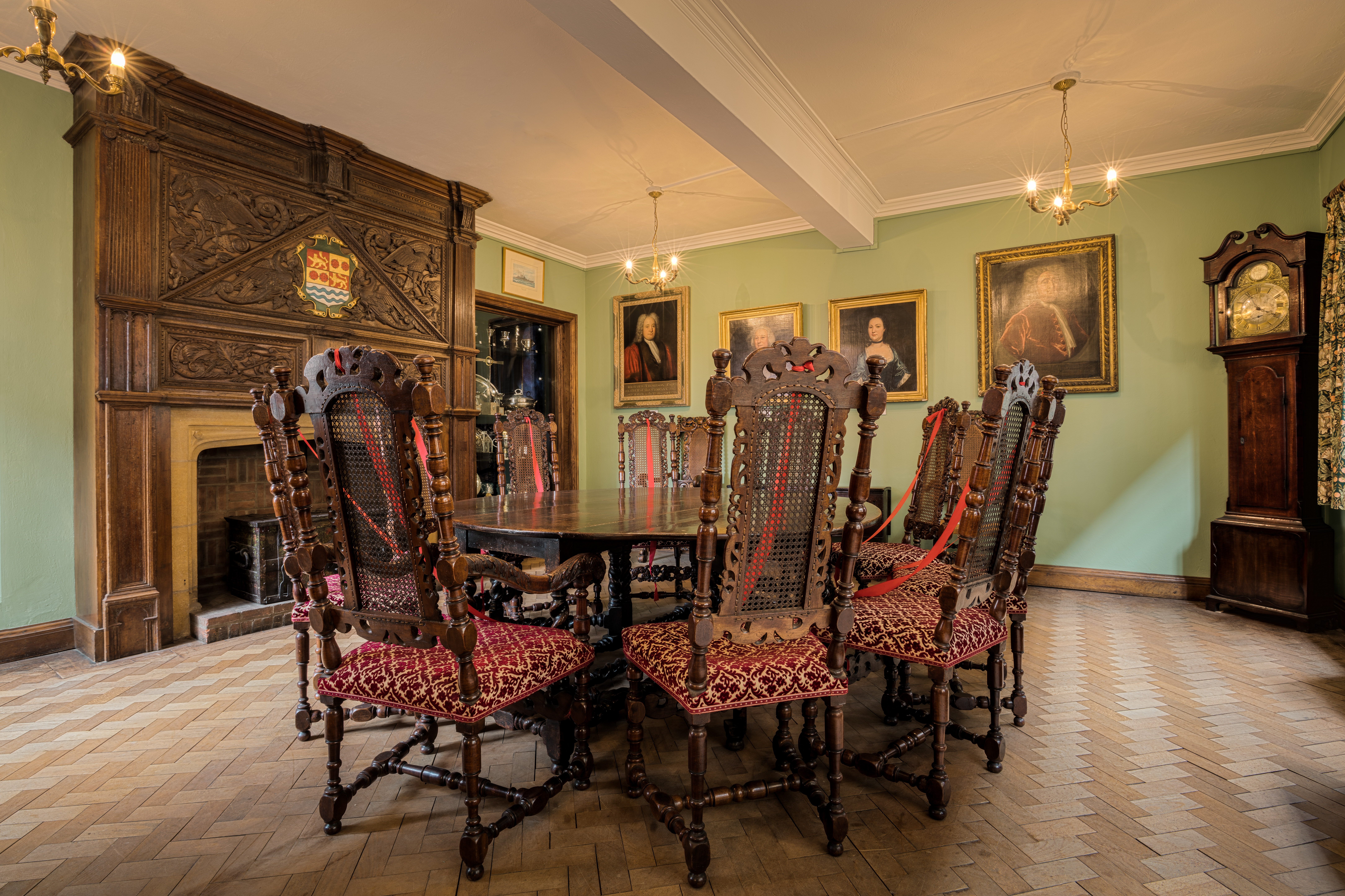 Here is an hdr photograph taken from The Governors Parlour Room inside The Merchant Adventurers Hall. Located in York, Yorkshire, England, UK.